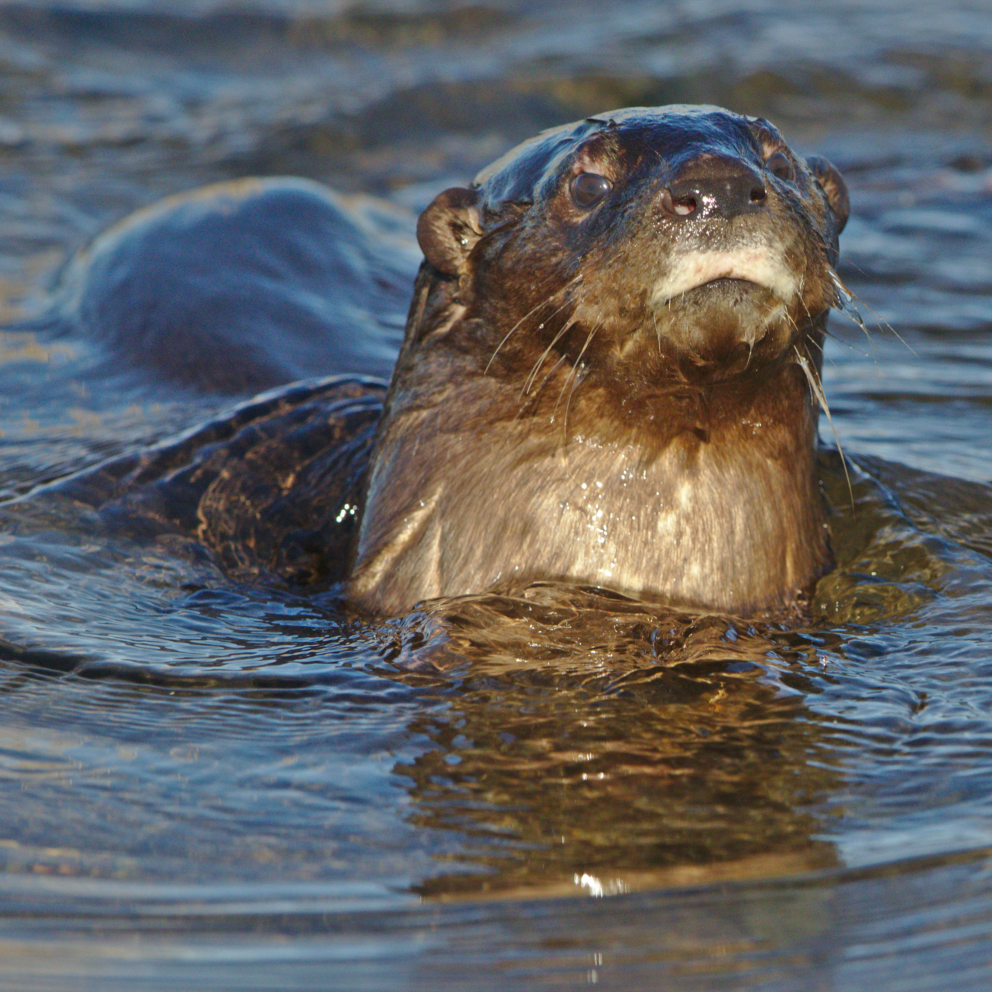 Spotted necked otter, Hydrictis maculicollis, at Marievale playing with a plastic bottle like a dog plays with a ball.